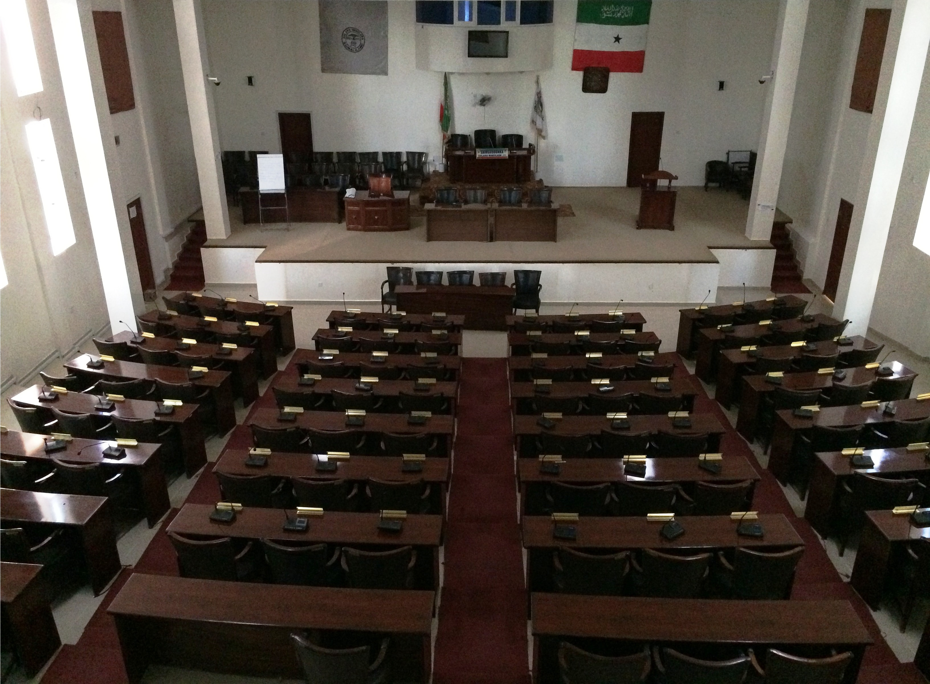 Meeting hall of the House of Representatives (Lower House of Parliament) in Hargeisa, capital of Somaliland (Somalia).